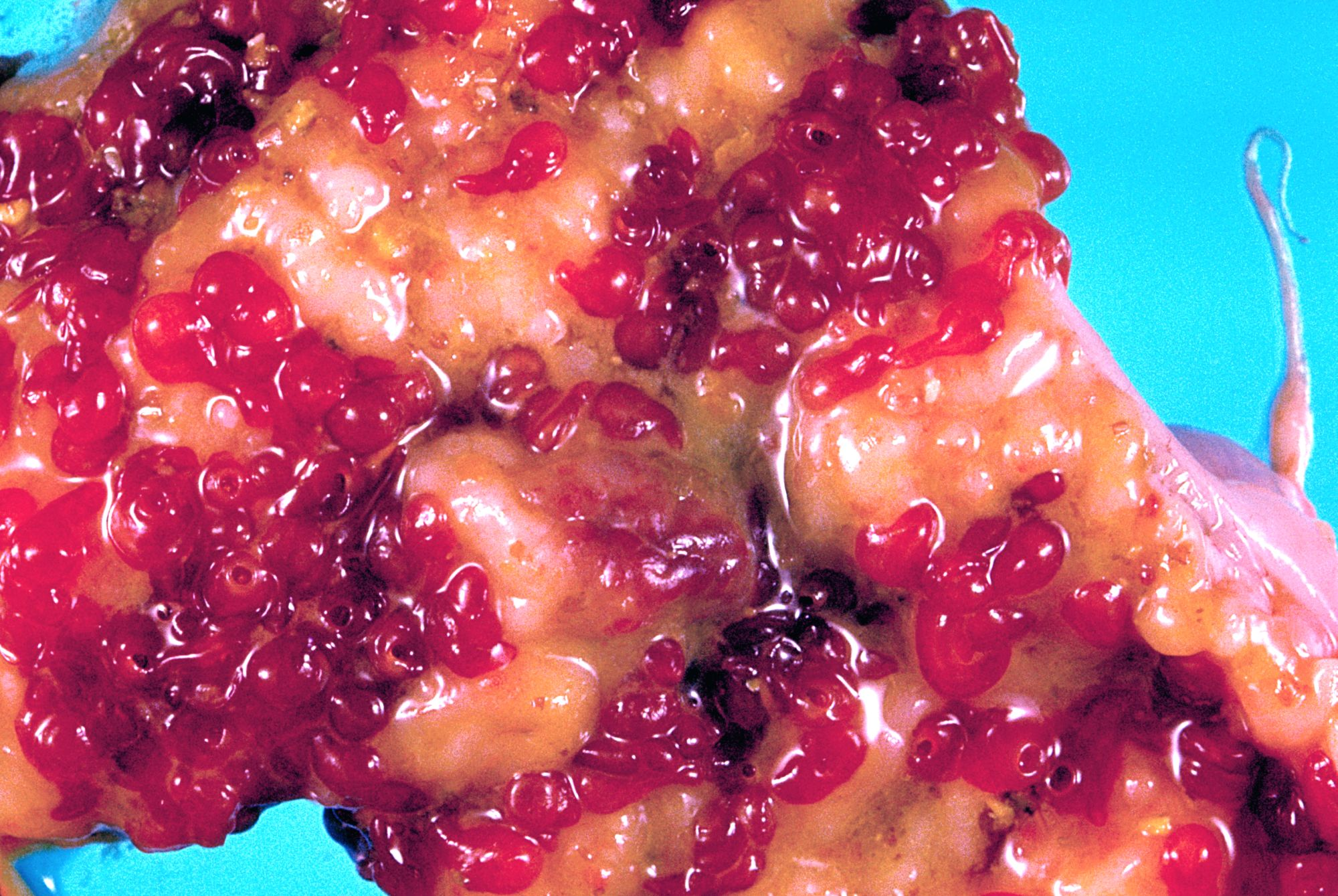 Colon from a rhesus monkey shows inflammation caused by Watsonius watsoni (Digenea: Gastrothylacidae).